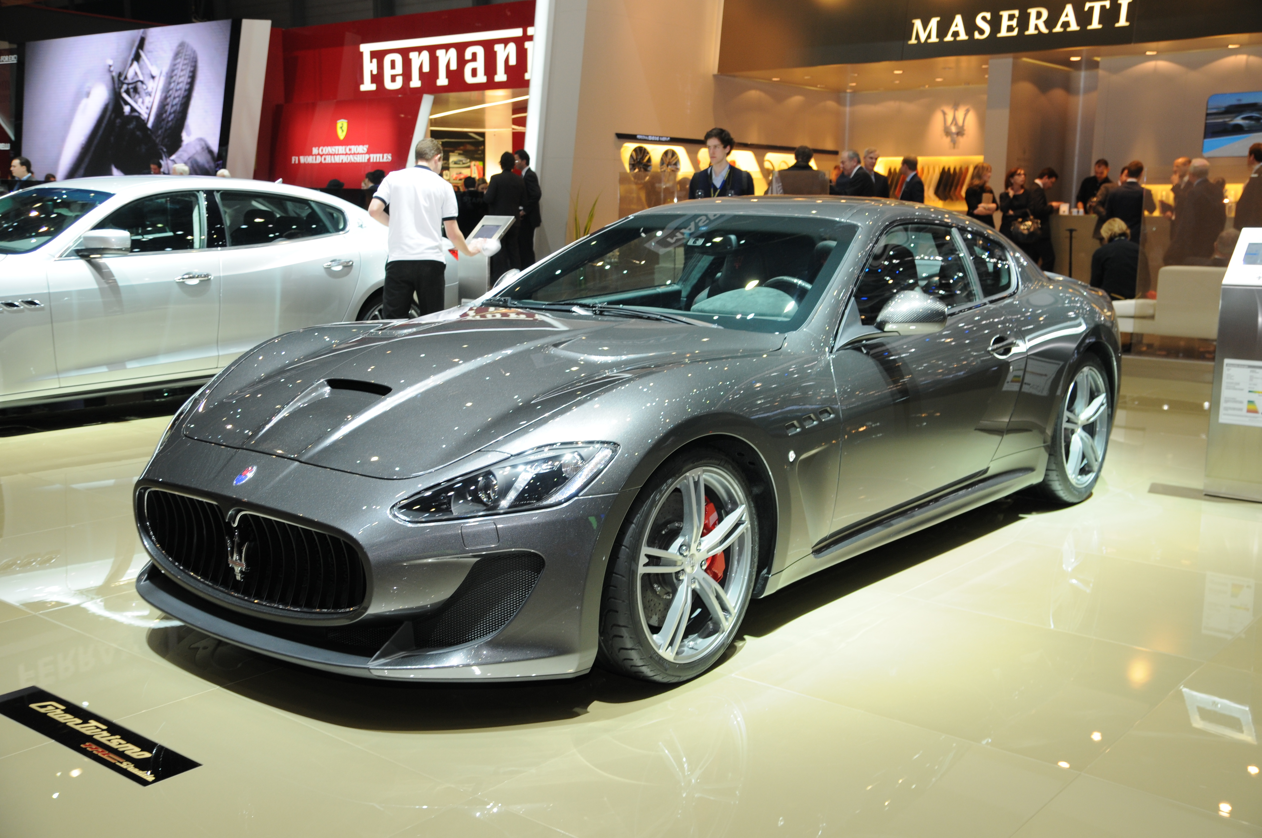 Maserati GranTurismo MC Stradale at Geneva Motor Show 2013 (photos taken on the first press day)